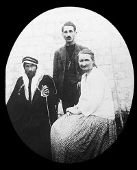 Karen Jeppe together with her son Misak Melkonian and Bedouin sheik Hajim Pahsa near Aleppo.